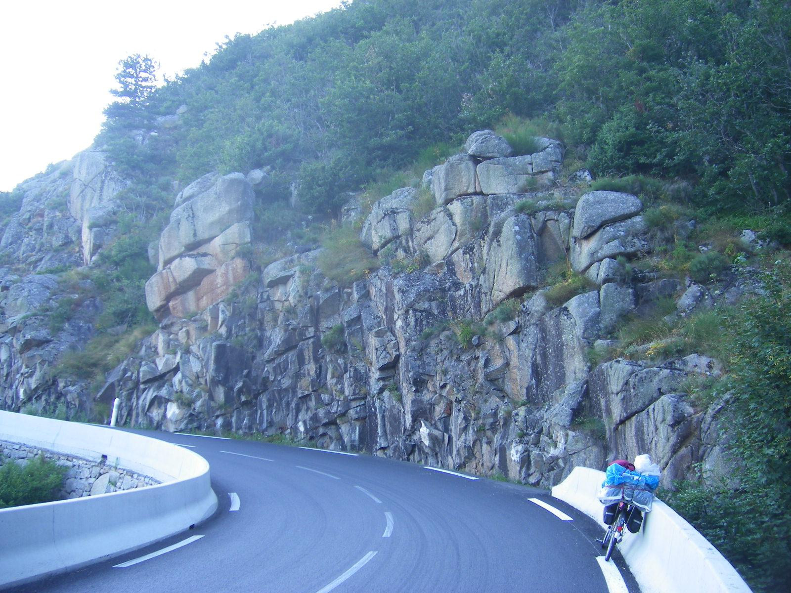 Granit rocks at the route to the Montmirat Pass, after Nozières (commune Ispagnac)